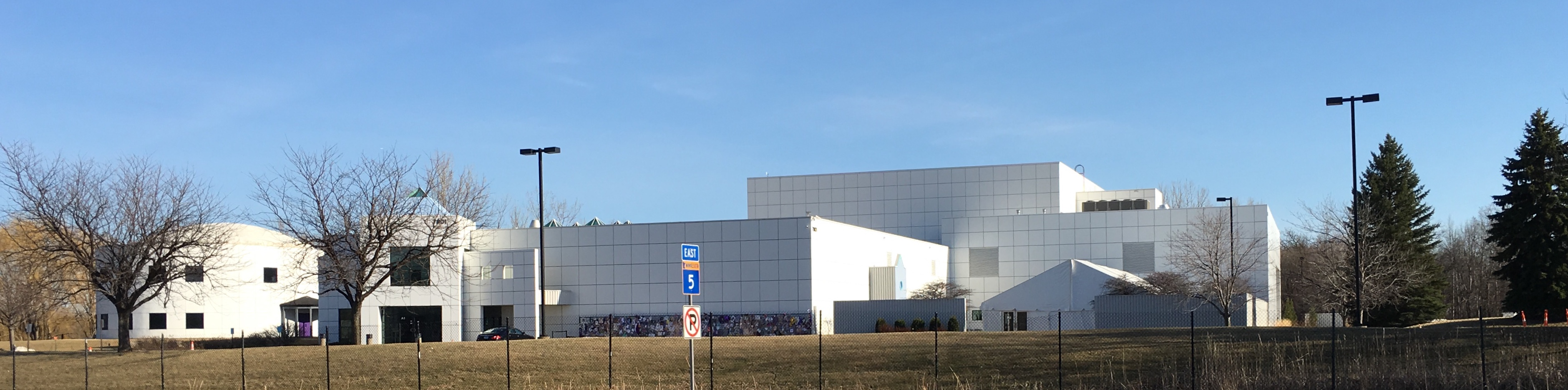 Panoramic picture of Prince's Paisley Park complex and recording studio in Chanhassen, MN.